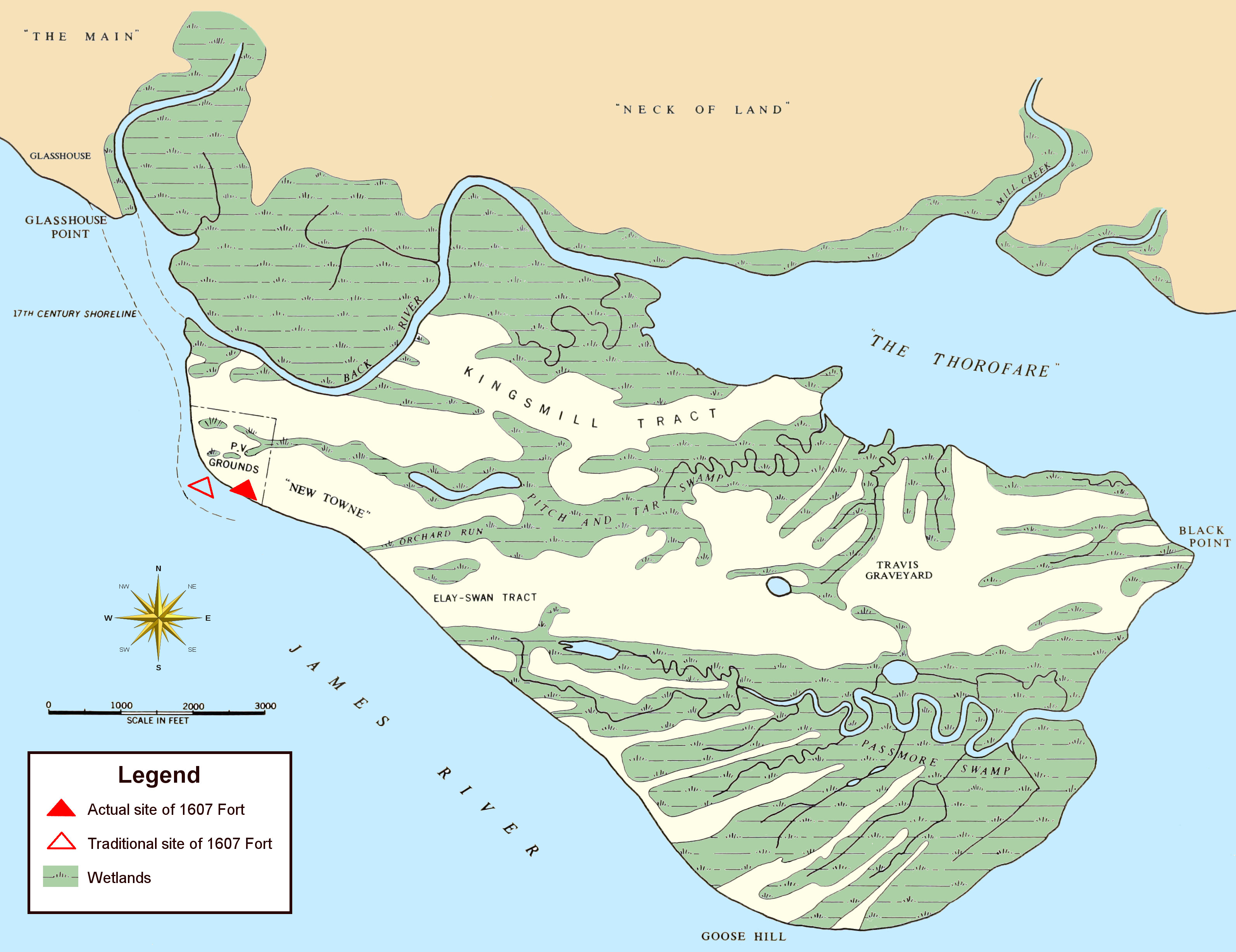 Map showing terrain of Jamestown Island (as it appeared in the middle of the 20th century). Note: roads and the causeway bridge linking the island to Glasshouse Point are not pictured. Indicated are the location where the 1607 James Fort was discovered (in 1994), as well as where it had traditionally thought to have been located.